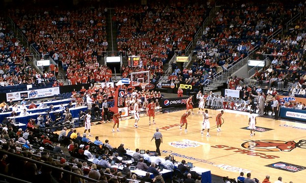 2011 MAAC Tournament at the Webster Bank Arena at Harbor Yards